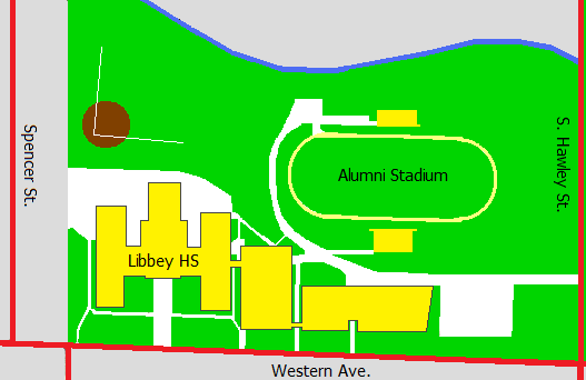 Aerial map showing the Libbey campus.